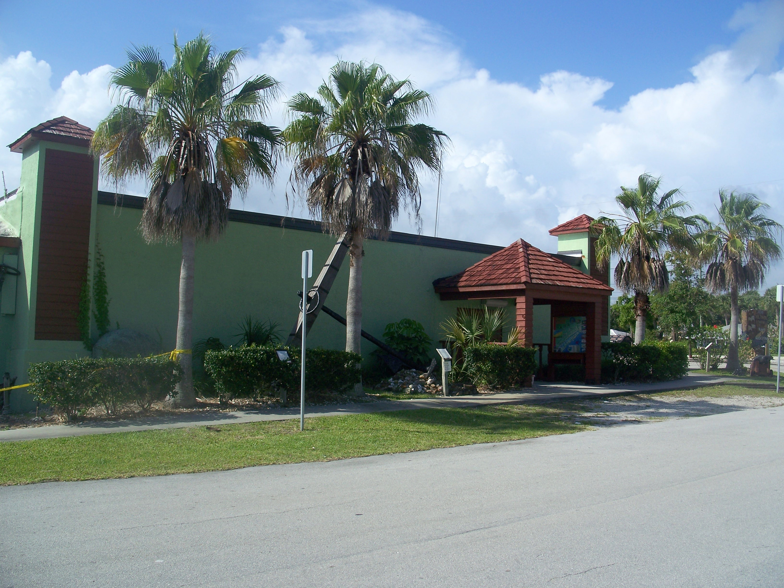 Sebastian, Florida: Mel Fisher's Treasure Museum